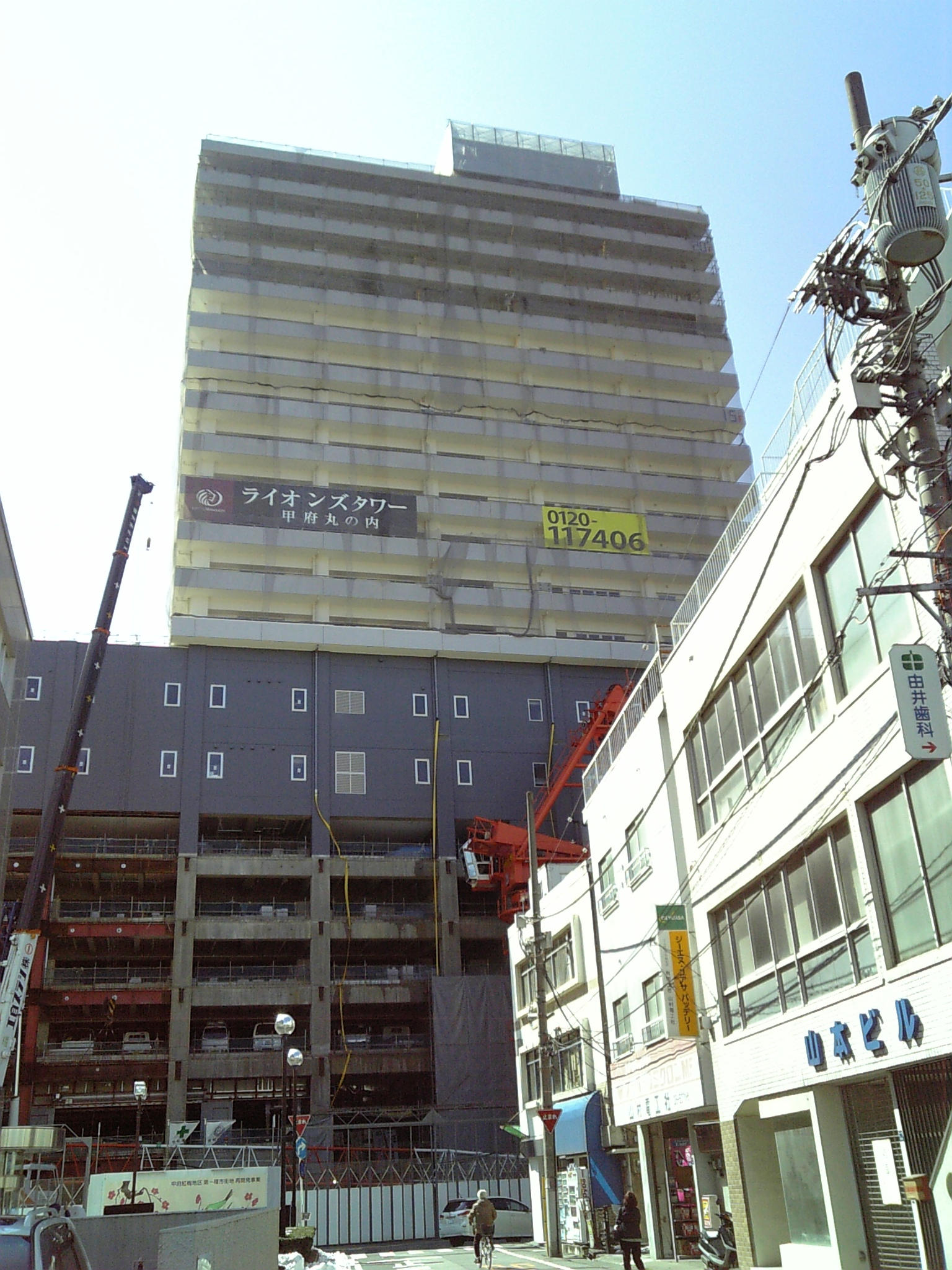 Kofu-shi redevelopment Maine building under construction Mar 2010